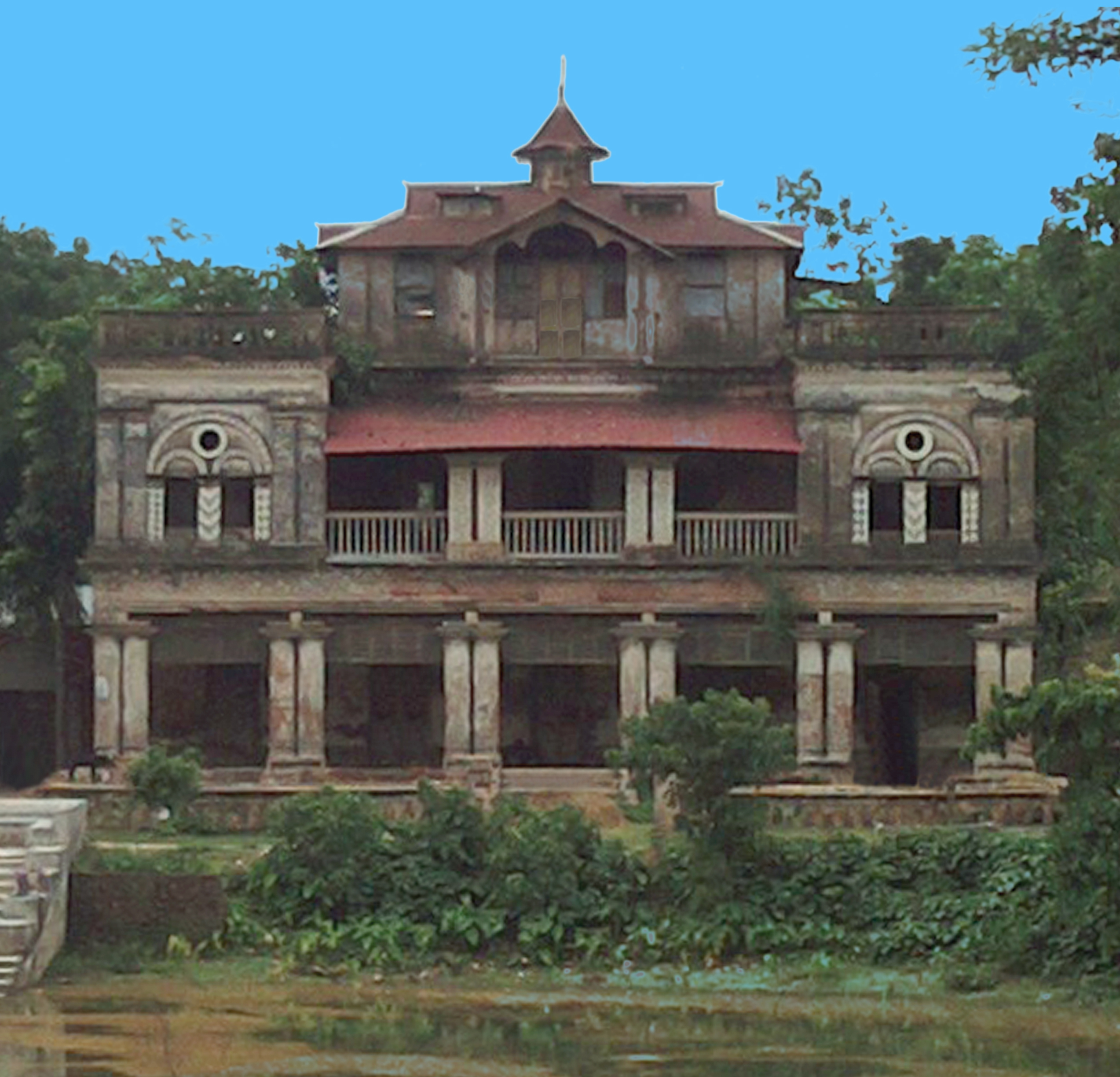 Gokarna Nawab Bari Complex, built by Nawab Sir Justice Syed Shamsul Huda K.C.I.E. (1862-1922). He was a Muslim political leader and scholar in British India. He was born in the village of Gokarna now known as 'Gokarna Nawaab Bari Complex' in Nasirnagar Upazila at Brahmanbaria District. Earlier integrated into the greater Comilla District, that was a part of Hill Tipperah before Partition.